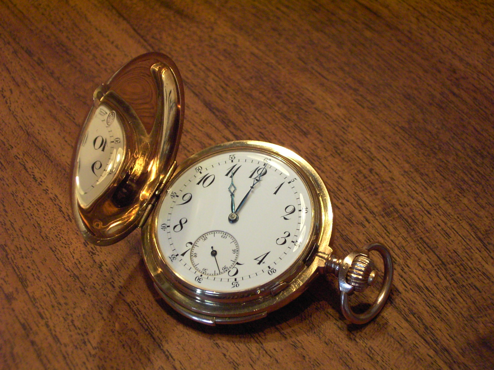 Clockface of an old spring-cover clock